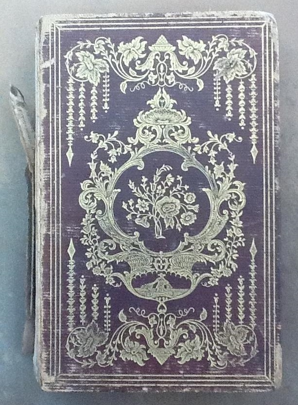 The cover of the literary annual The Gift: A Christmas and New Year's Present for 1843, published in 1842 by Carey and Hart in Philadelphia. Included in this collection is the first appearance of the short story "The Pit and the Pendulum" by Edgar Allan Poe.